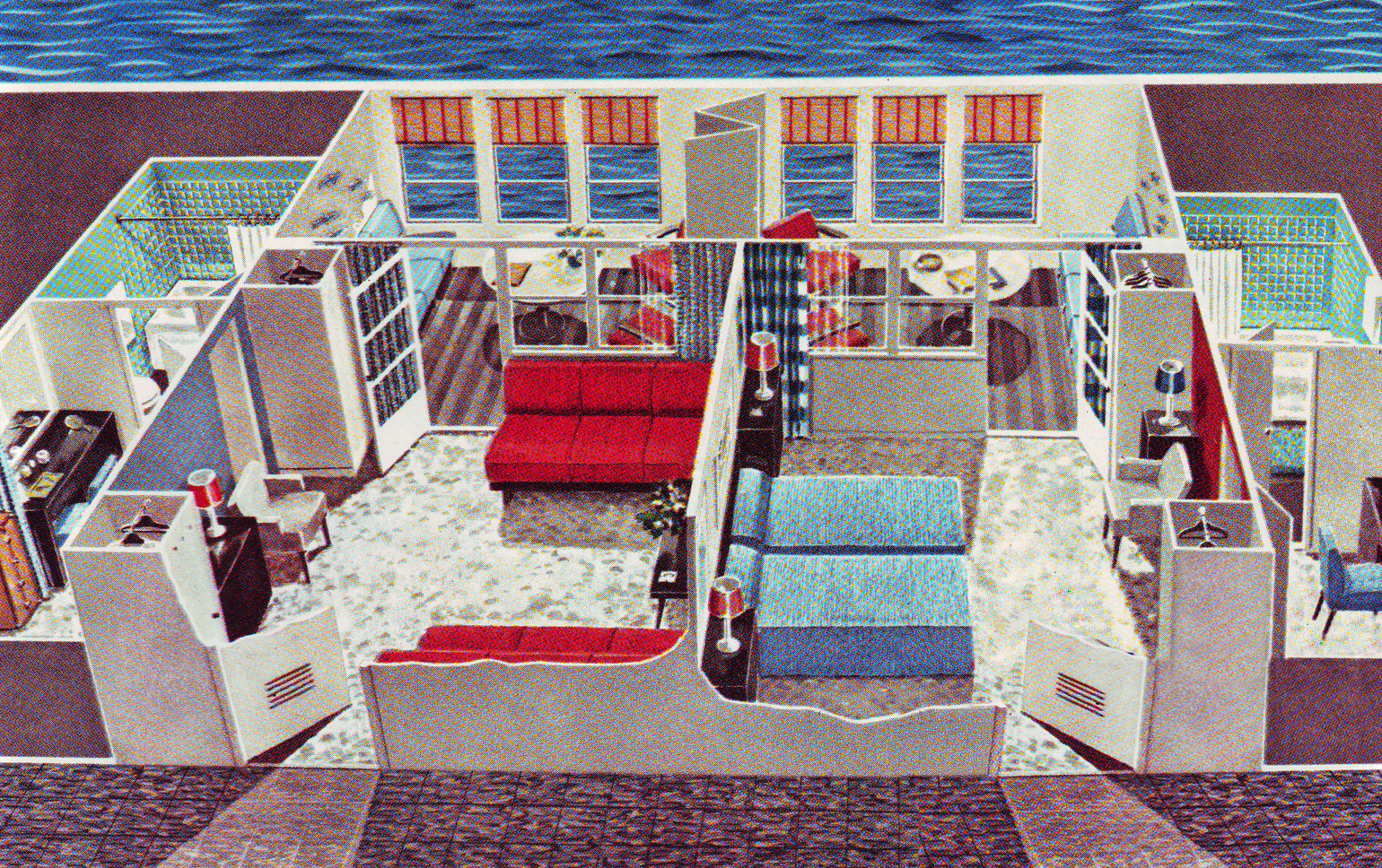 SS Independence "Penthouse Suite" 1951. Illustration from a 24-page brochure for the "Gala Maiden Voyage of the Sun Liner Independence Mediterranean Cruise Feb. 10, 1951". American Export Lines Depart New York: Feb. 10; 22 Mediterranean ports in 53 days; Arrive New York: April 3, 1951